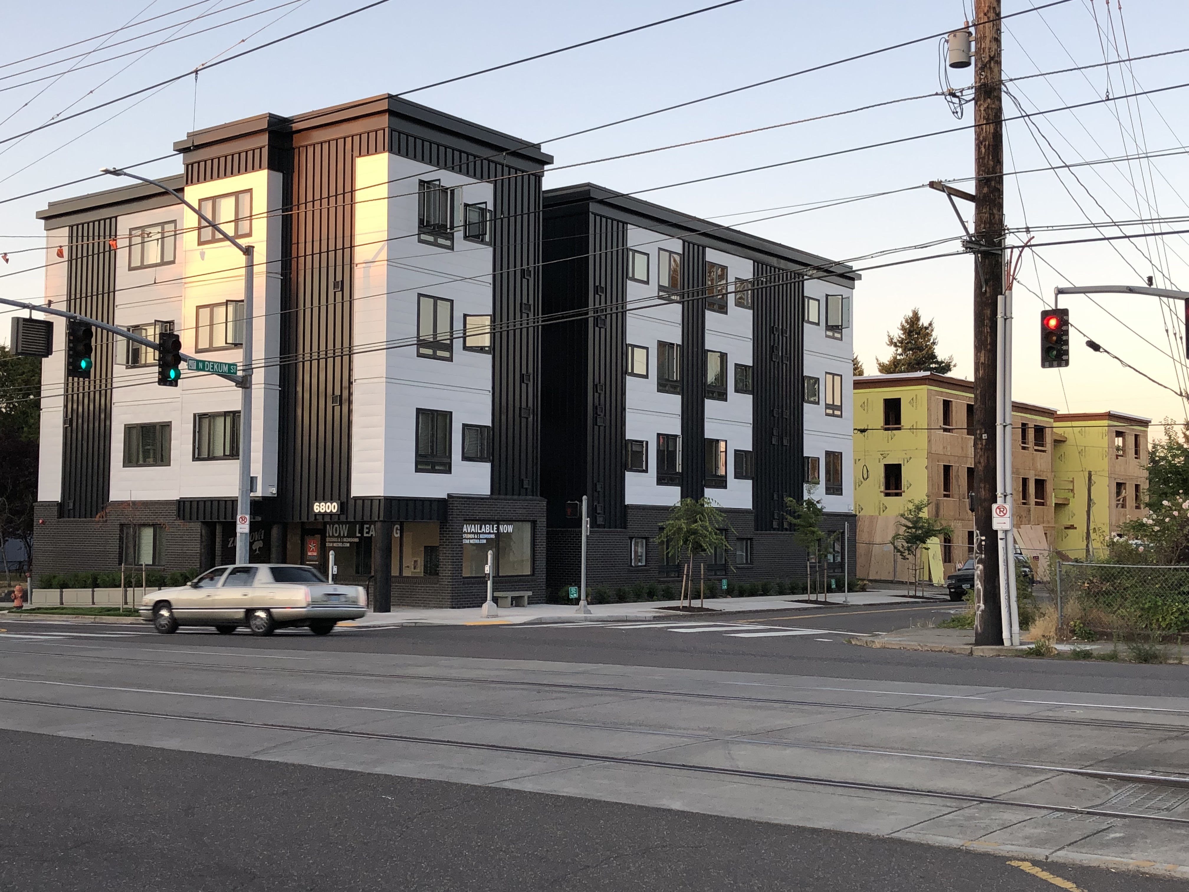 Depicted place: Arbor Lodge